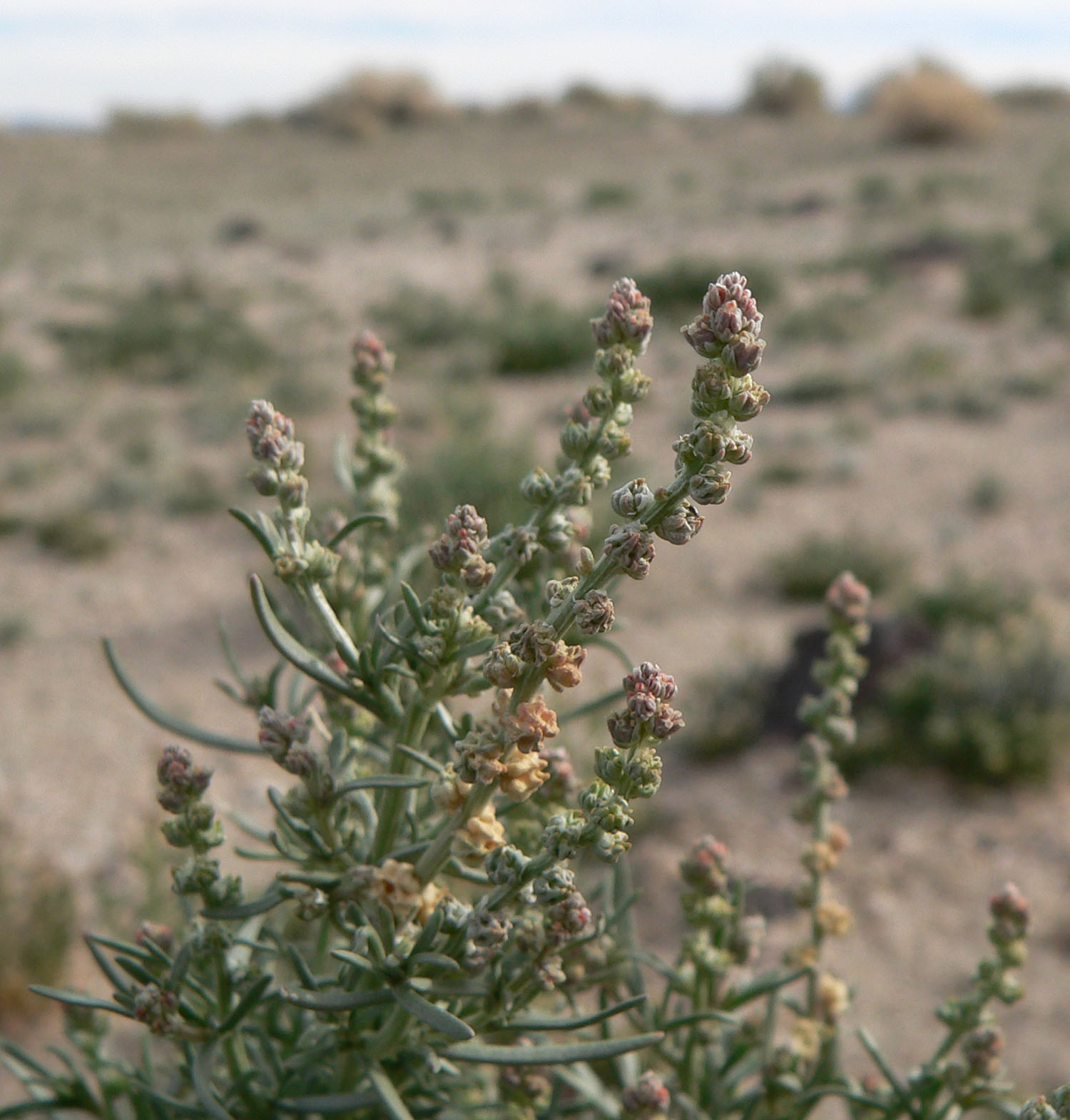 Oligomeris linifolia near the entrance sign for the Mojave National Preserve by the Kelbaker Road, southeast of Baker, California